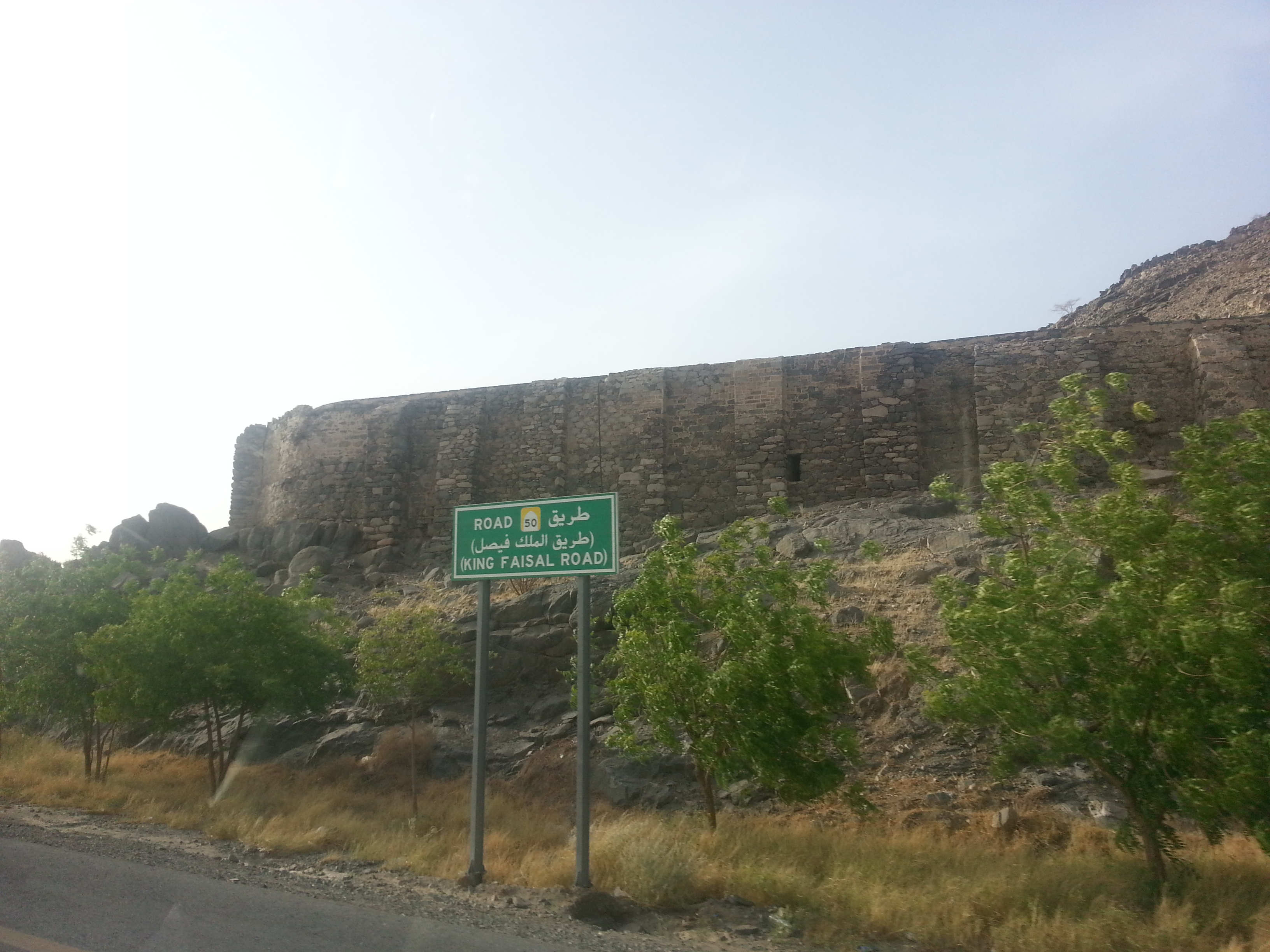 Zubaidah had built a colossal canal which brought fresh drinking water from the springs on the outskirts of Makkah. This wall is part of this canal. It no longer brings water since the government has blocked the water stating the reason of water pollution which has made the water unsafe to drink.